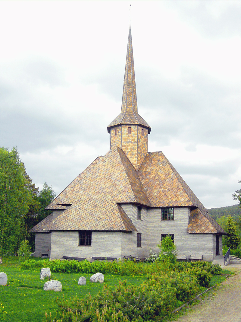 Dombås and the churche Dombås kirke.